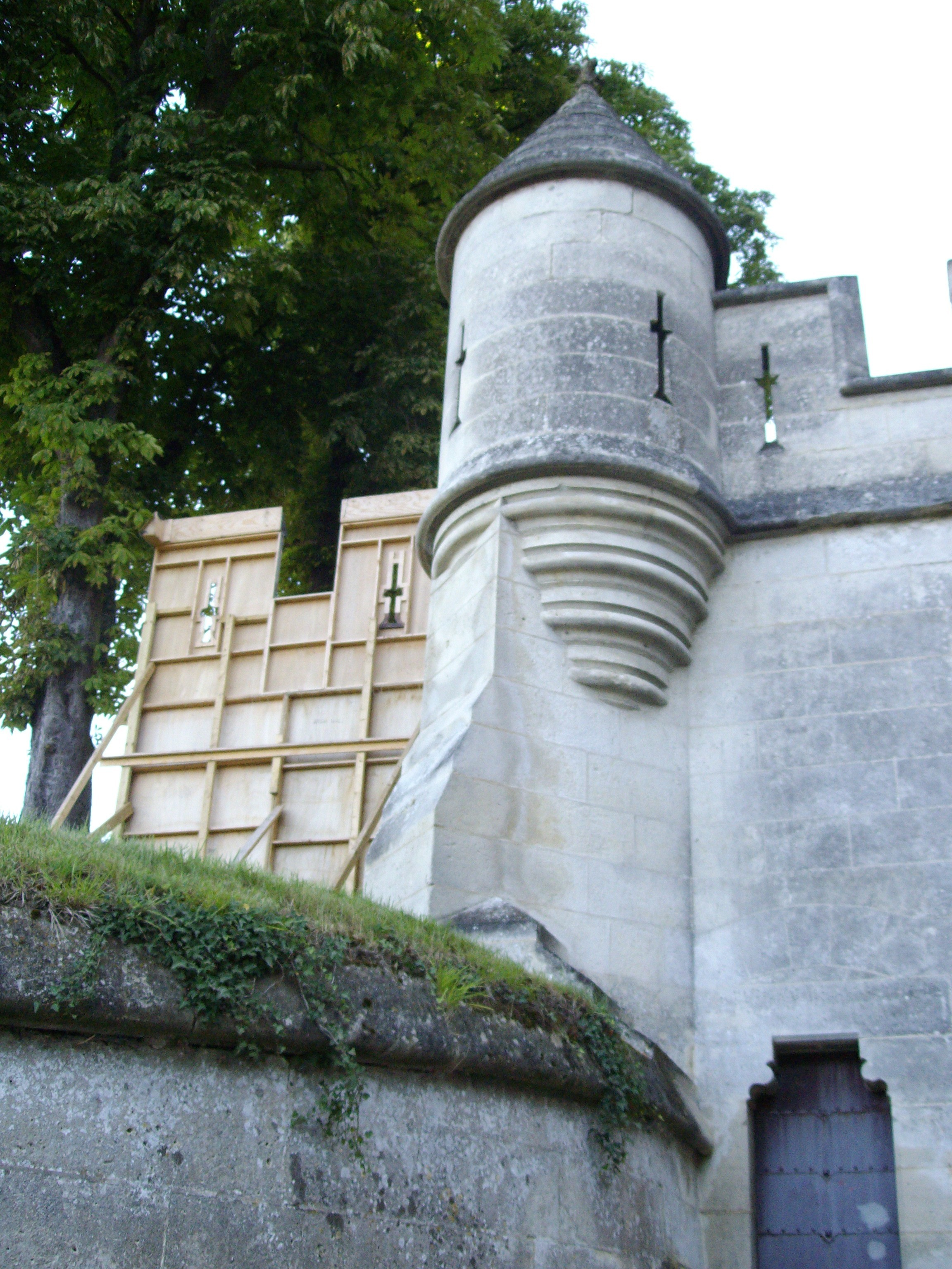 Exterior of the château de Pierrefonds (Oise, France)